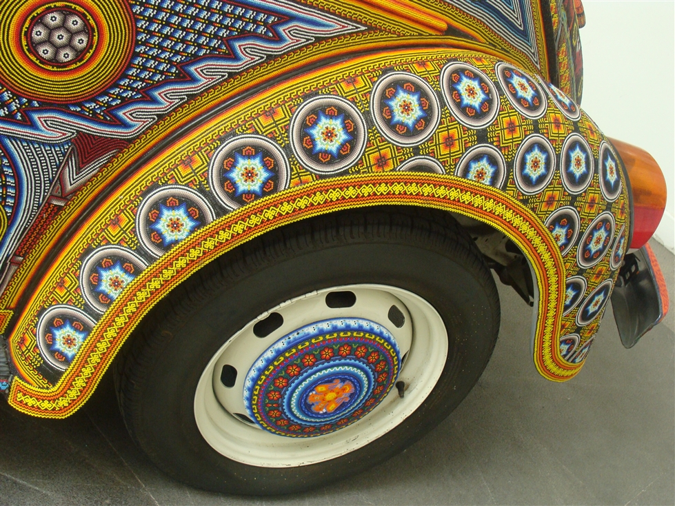 Rear wheel drivers side of the Vochol